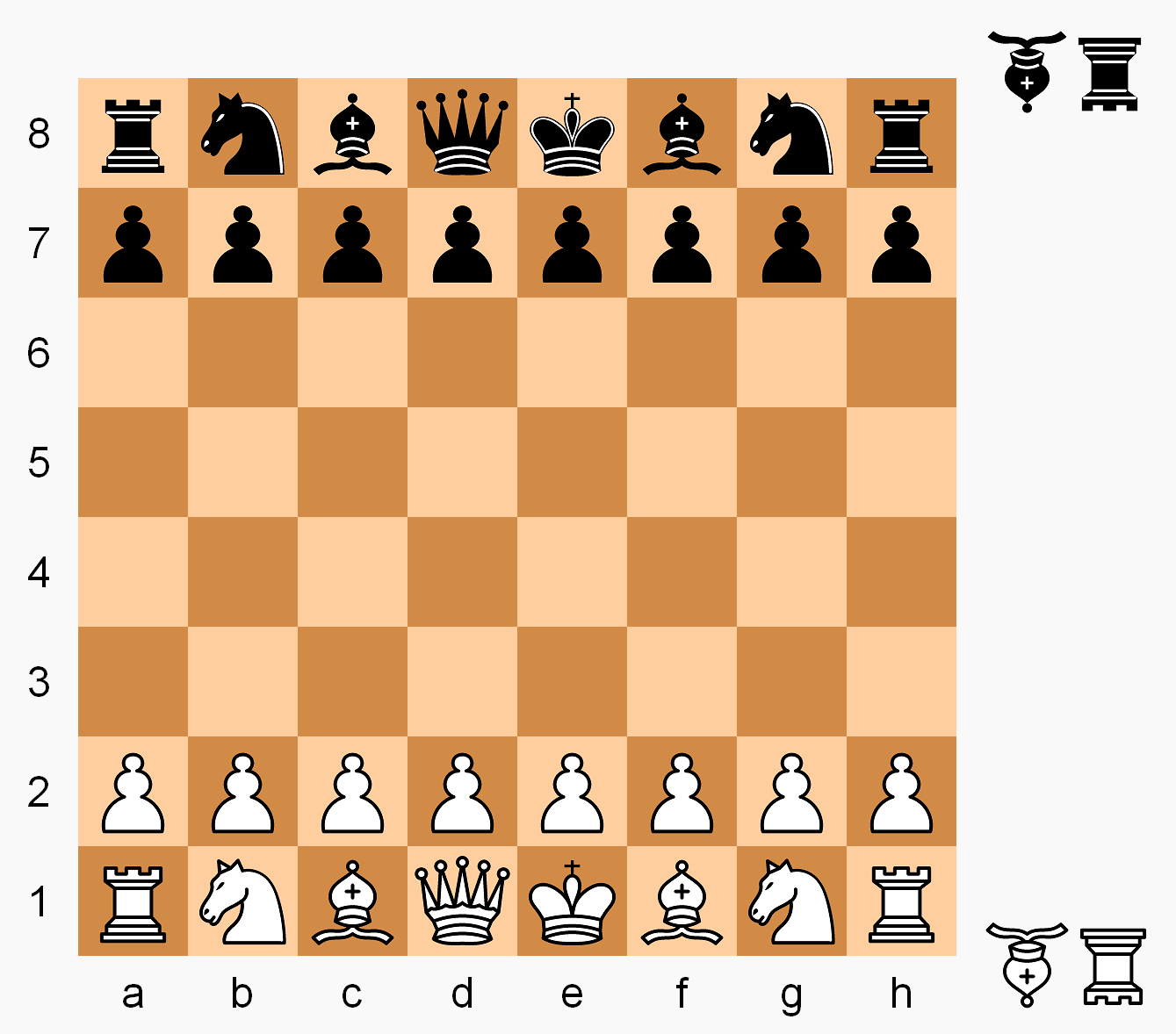 Using the great free-use chess icons fashioned by David Benbennick (User:Dbenbenn). All done in MSPAINT.